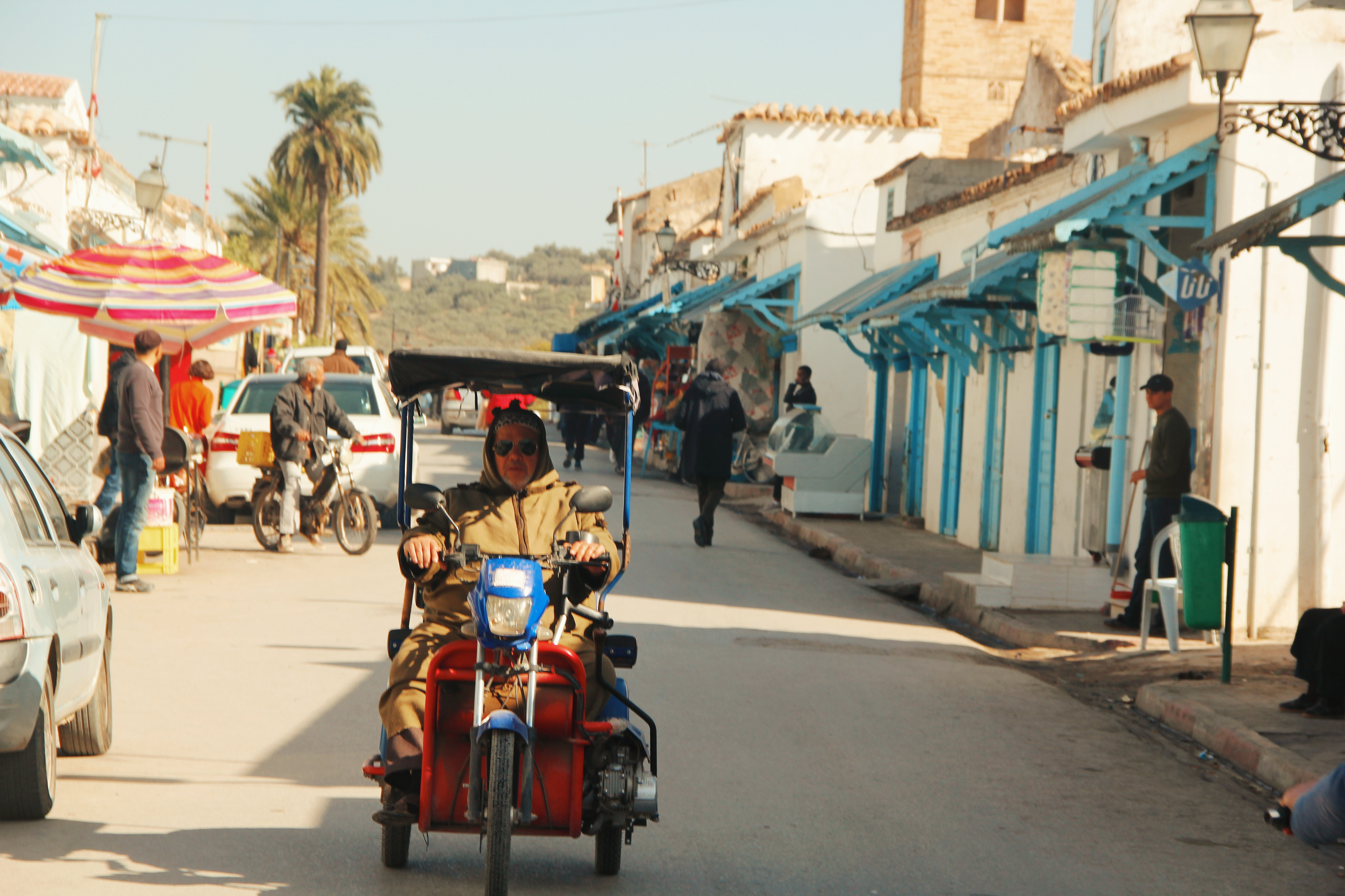 Older man wearing traditional Tunisian attire (Barnous) driving his three-wheeler down a street in the city on Testour in the northwest of Tunisia. This is an image with the theme "Africa on the Move or Transport" from: Tunisia